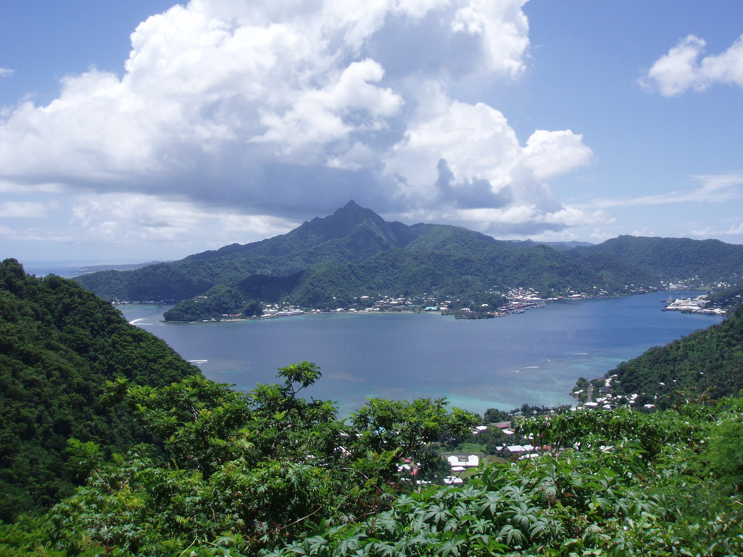 The eroded shield volcano of Pago at Pago Pago Harbor on Tutuila Island, American Samoa. The mountain summit (Matafao Peak) and upper slopes are a volcanic plug of trachyte (about 1.02 million years old). The lower slopes are volcanic breccia of the Pago Volcanics (about 1.18 million years old). Reference: McDougall, I. (1985) Age and Evolution of the Volcanoes of Tutuila, American Samoa, Pacific Science, volume 39 number 4, pages 311-320.